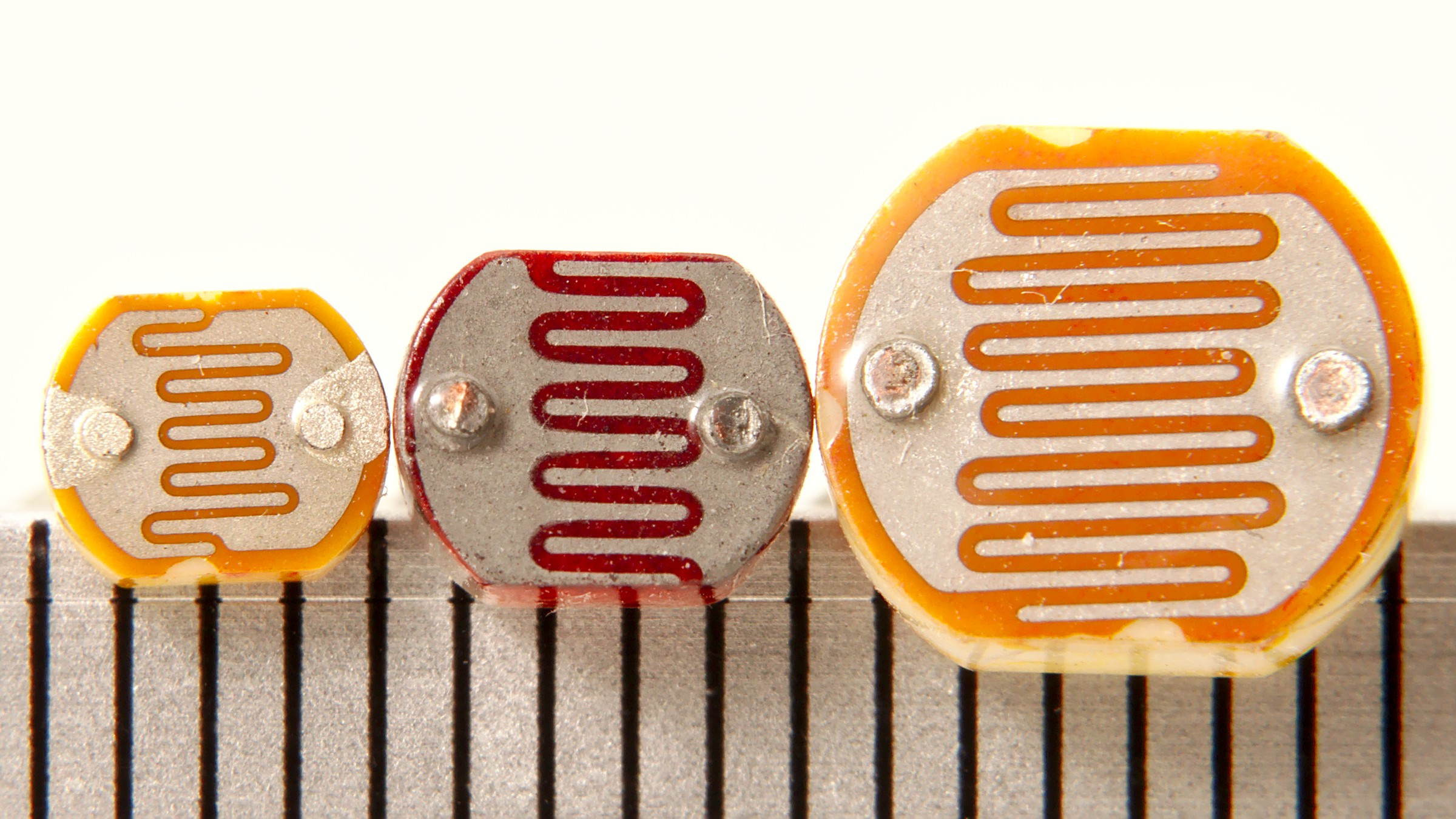 Three sizes of photoresistor shown with 1 millimetre (0.039 in) scale markings.